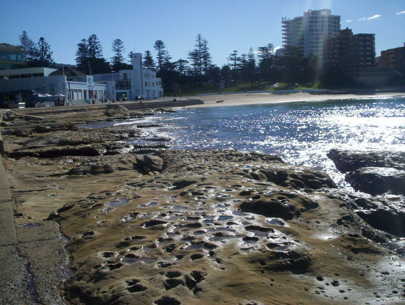 Cronulla Beach in Sydney, Australia. The building on the left is the Cronulla Surf Life Savers Club.